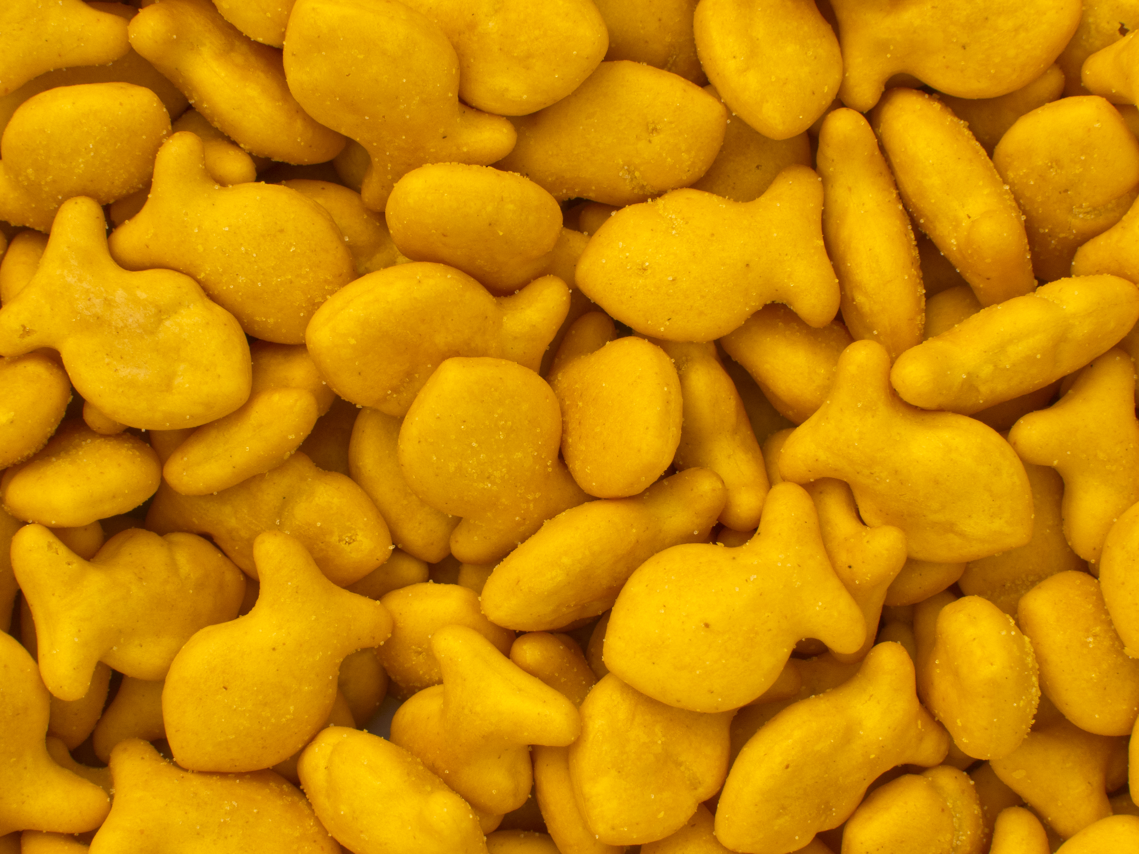 A pile of Goldfish Crackers, made by Pepperidge Farm. These are baked, chedder-cheese-flavored snack crackers sold in North America.